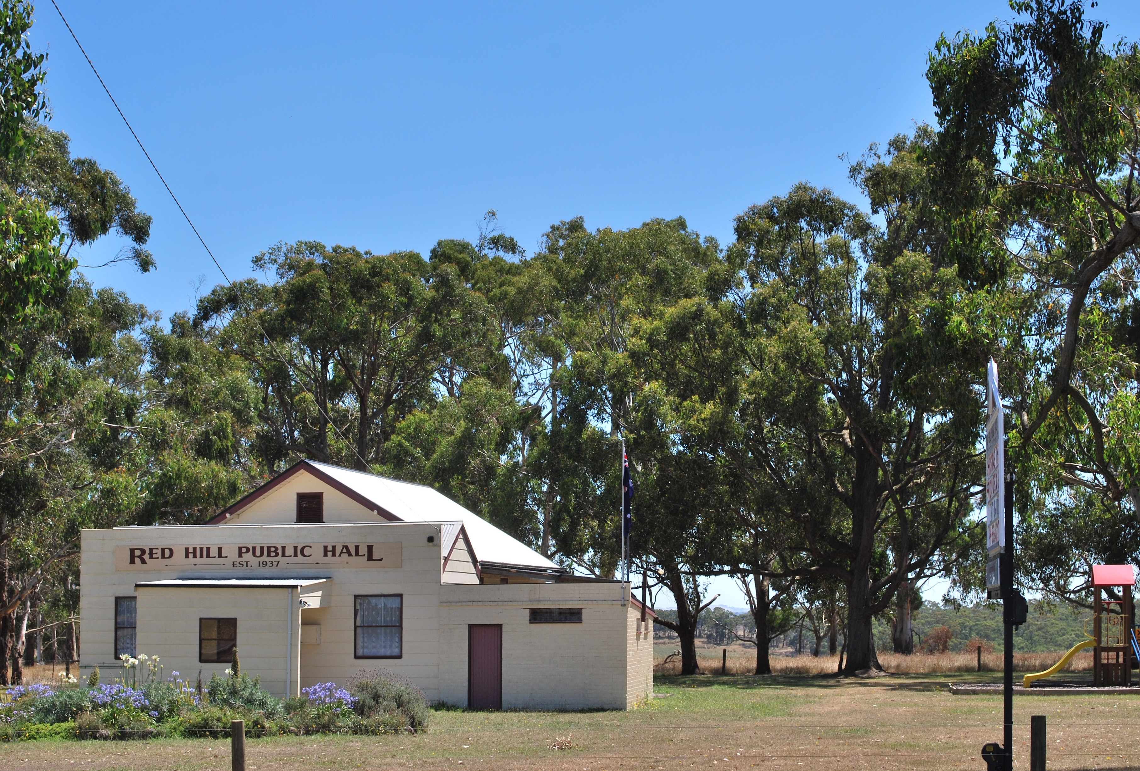 Red Hill public hall, near Jancourt, Victoria